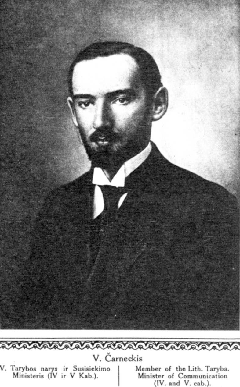 Voldemaras Vytautas Čarneckis, diplomat, member of Constituent Assembly of Lithuania